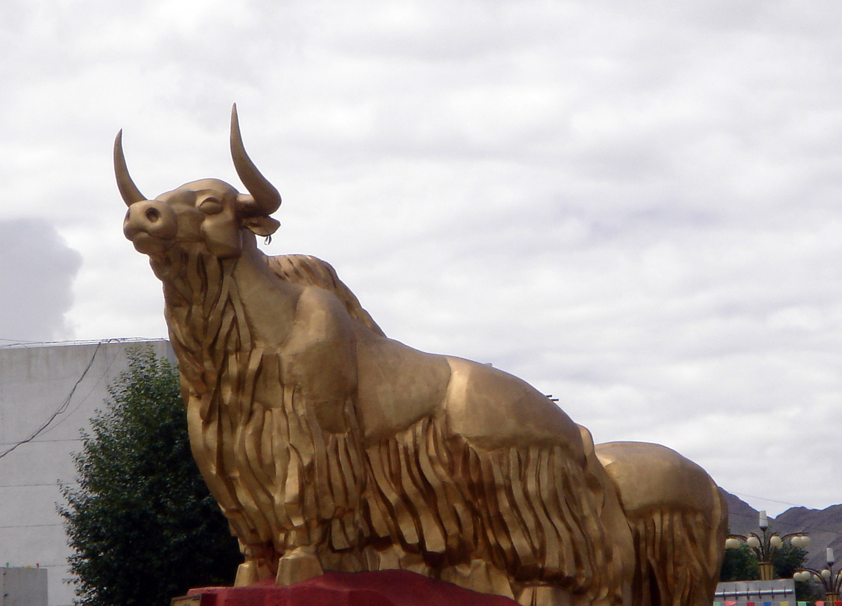 Yaks, The mascot of Lhasa